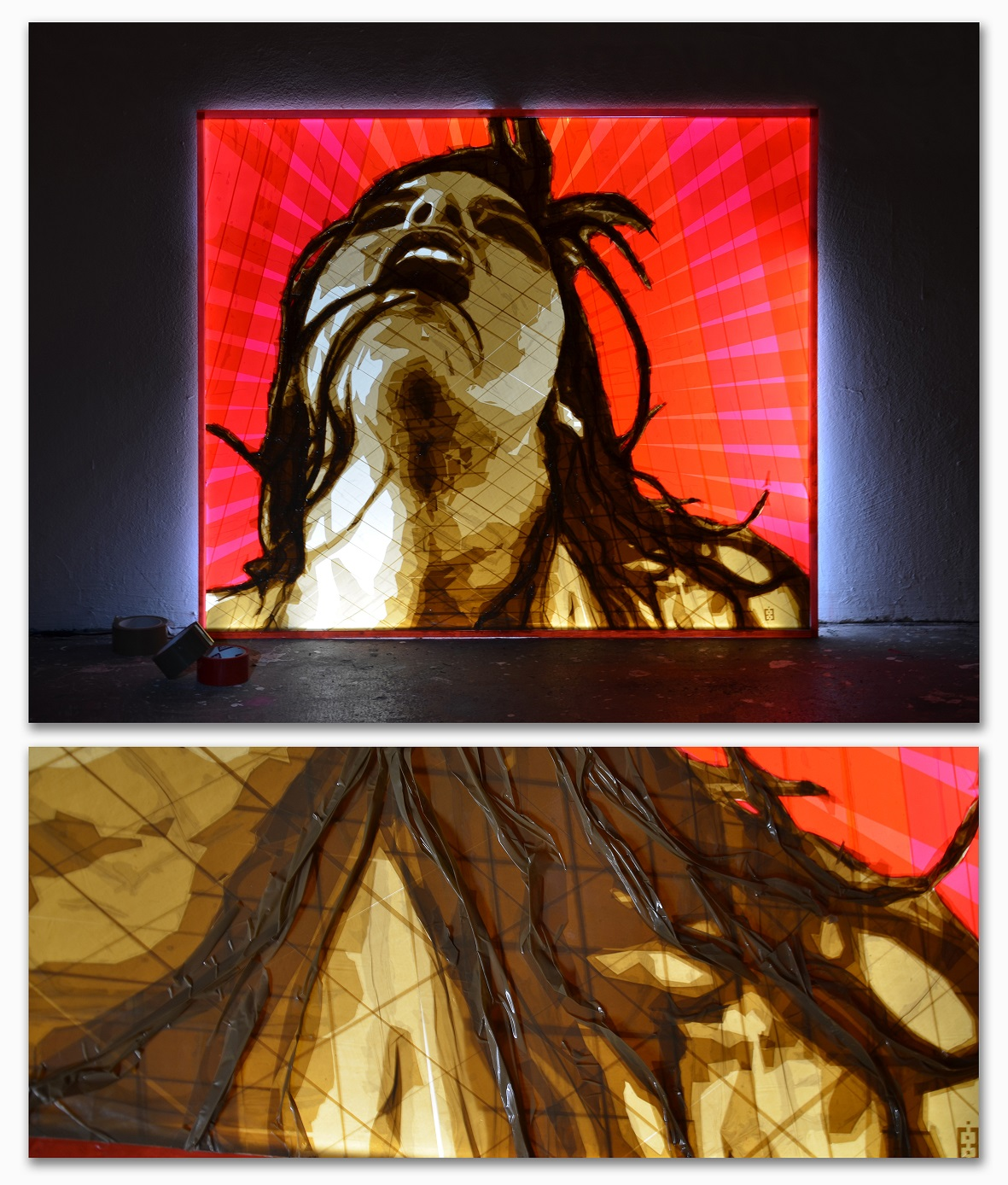 Image of "Feel"- packing tape art by Slava Ostap, 2014.